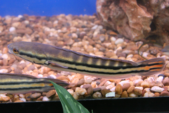 A giant snakehead fish (Thai: ปลาชะโด) or Channa micropeltes at the 20th Pramong Nomklao fish show event at the Future Park Rangsit, Thailand, in July 2008. This specimen displays a juvenile color pattern which is different than that of an adult. Picture taken by myself.